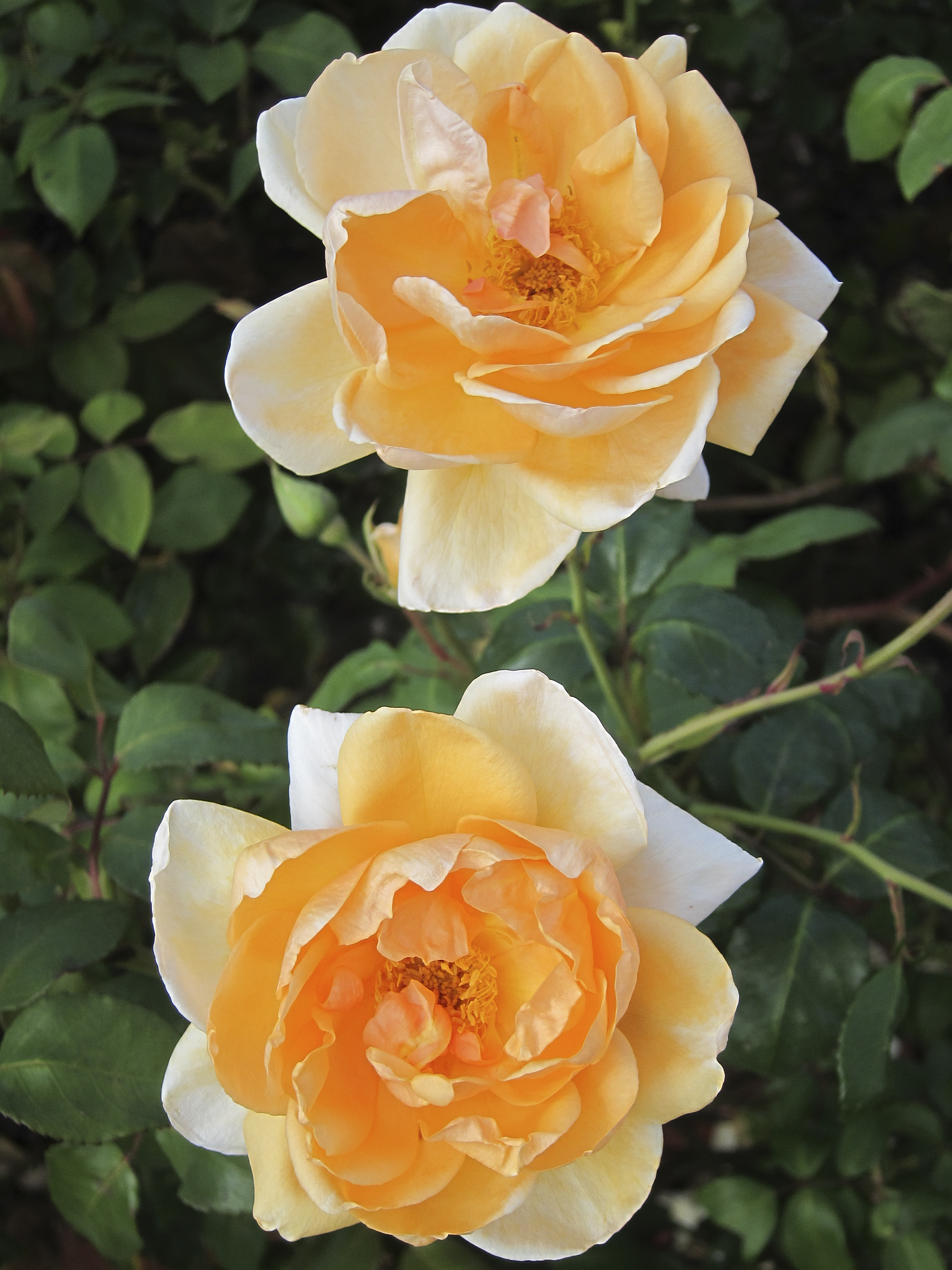 Rosa 'Lady Huntingfield', Hybrid Tea by Alister Clark 1937; Photographed at the Victoria State Rose Garden, Werribee Park, Werribee, Victoria